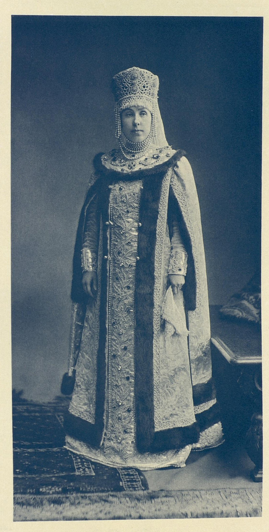 Надежда Владимировна Безобразова, урождённая графиня Стенбок-Фермор, (в костюме сенной барыни времен царя Алексея Михайловича)